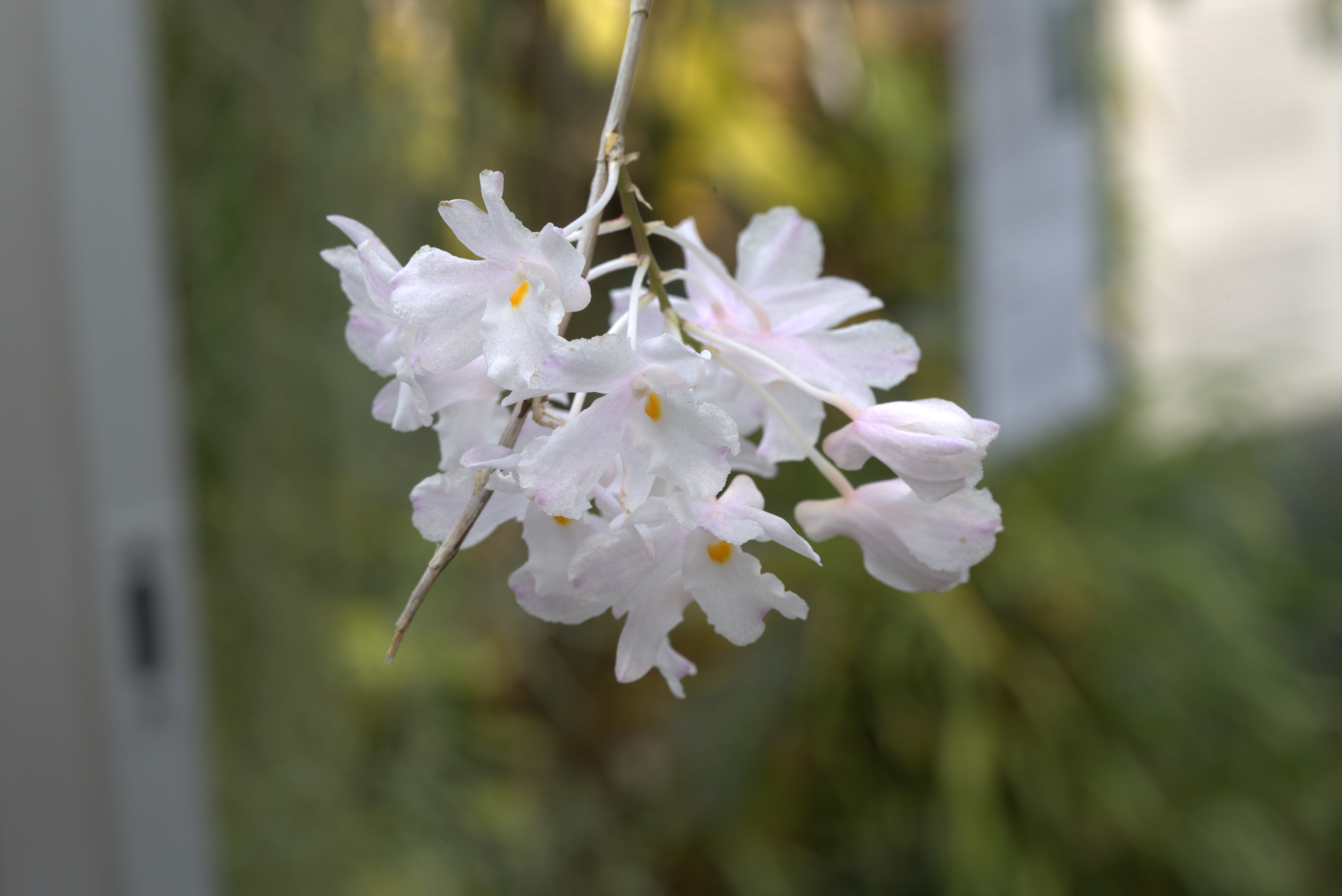 Dendrobium mutabile in Gothenburg botanical garden. Plant id: 1989-V0676 p W -- Neuendorf